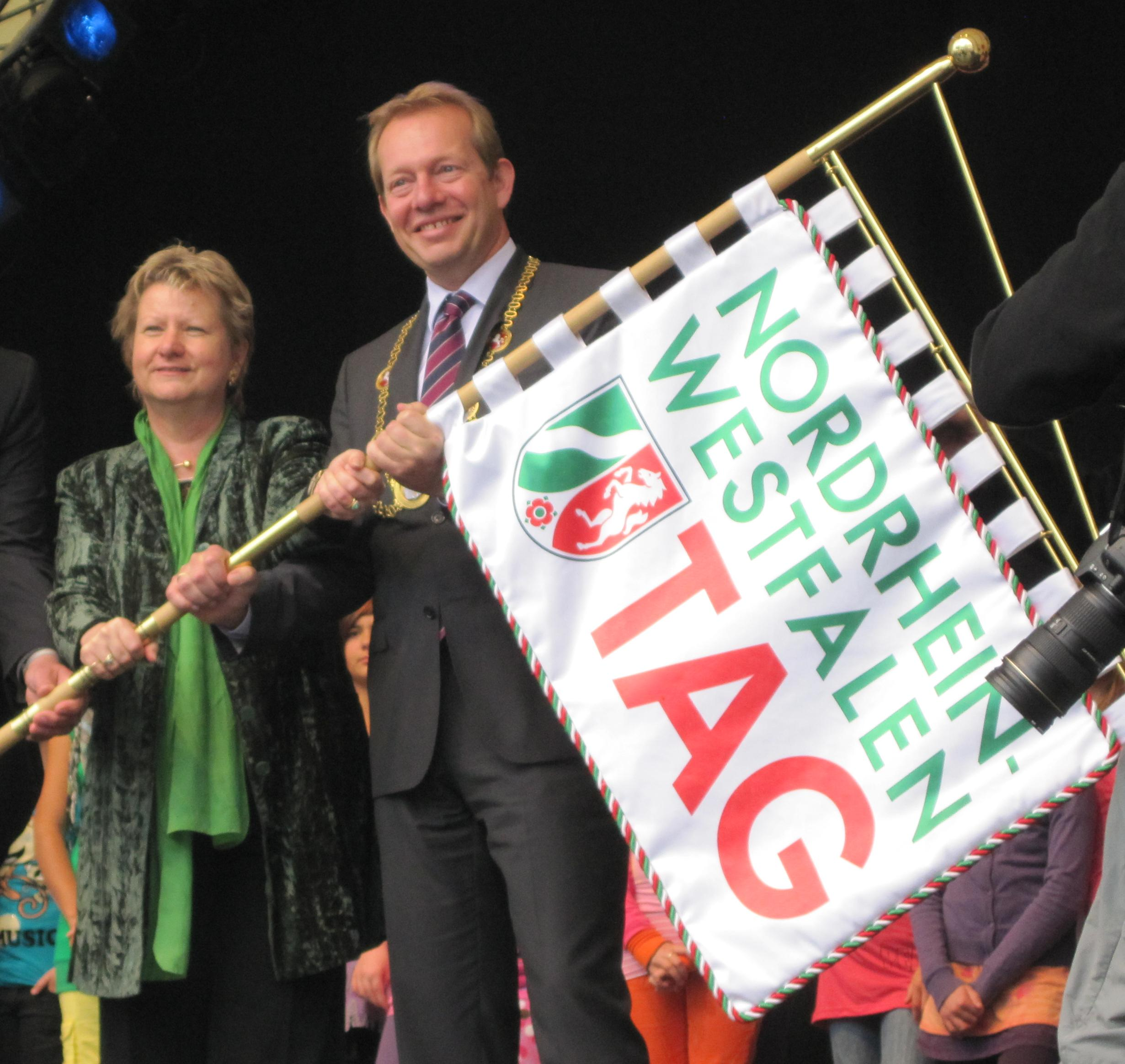 Sylvia Löhrmann and Steffen Mues, Siegen, Germany check usage